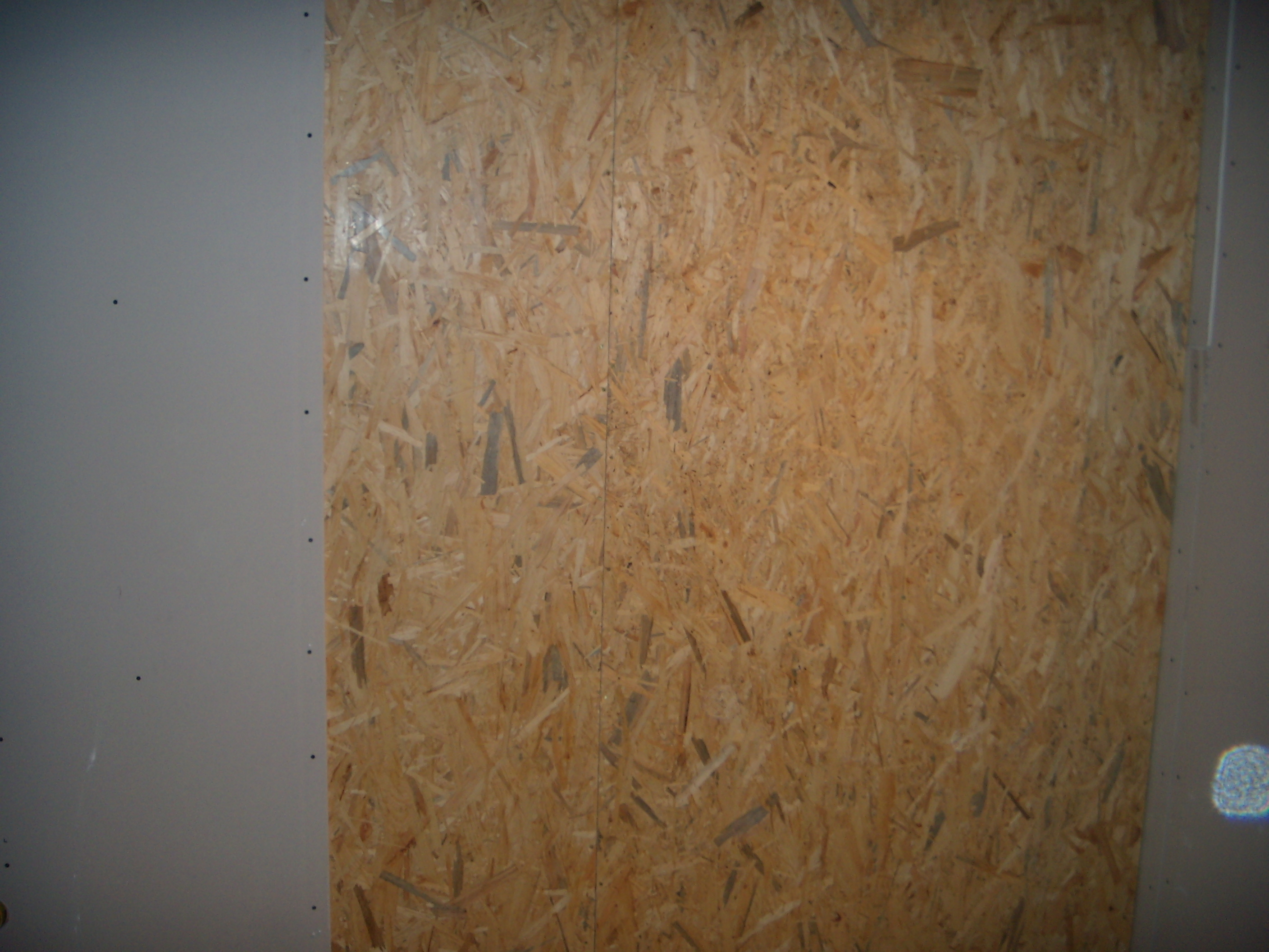 OSB Plate